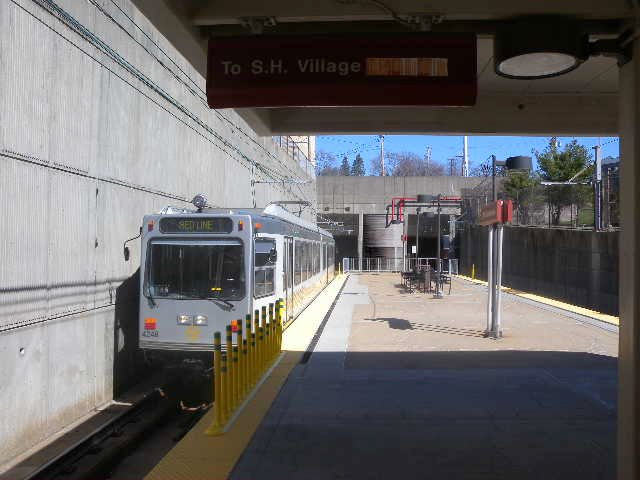 Looking north as trolley arrives from the tunnel on a sunny morning.